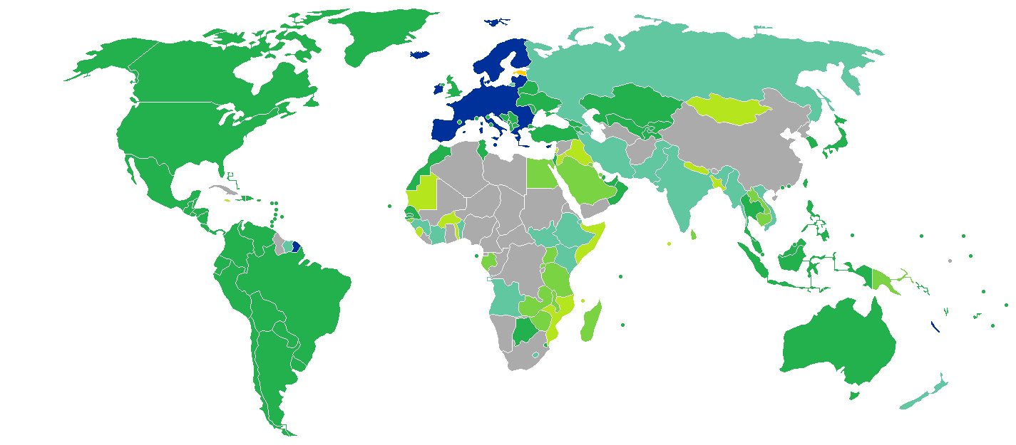 Visa requirements for Estonian citizens Estonia Freedom of movement Visa not required Visa on arrival eVisa Visa available both on arrival or online Visa required prior to arrival